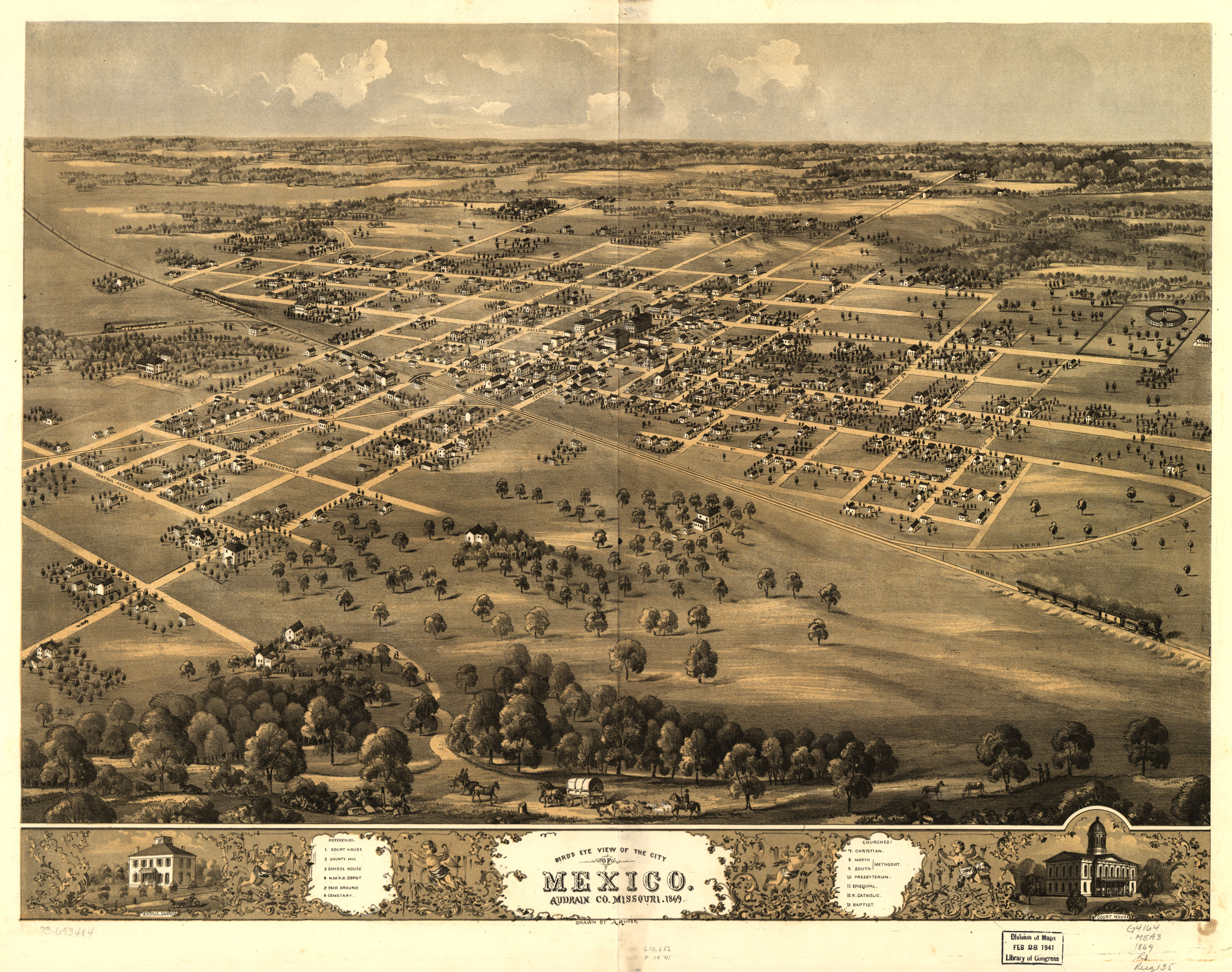 Perspective map not drawn to scale. LC Panoramic maps (2nd ed.), 432 Available also through the Library of Congress Web site as a raster image. Includes ill. and index to points of interest. Vault AACR2: 100; 651/1